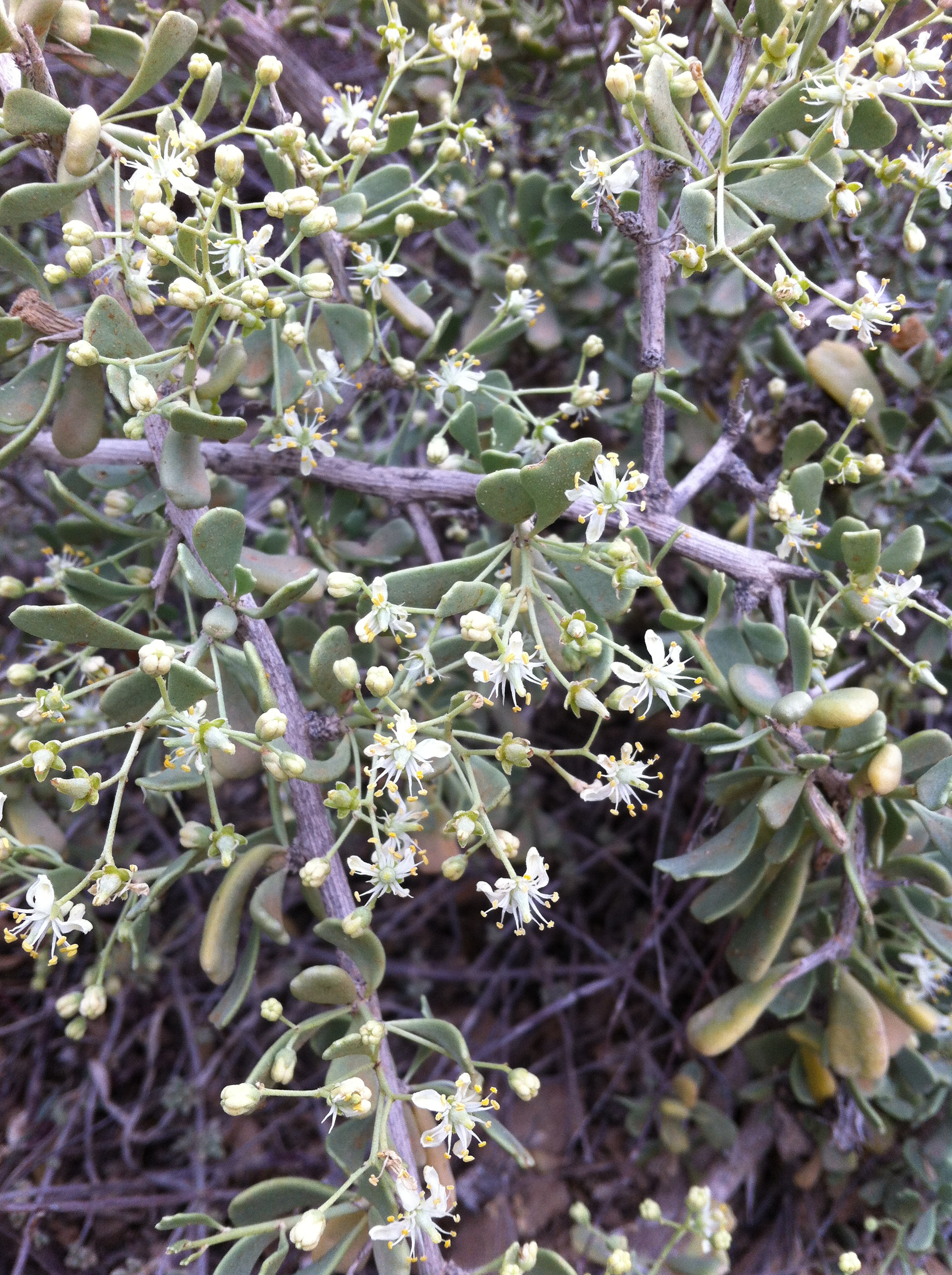 Nitraria retusa on Djerba, Tunisia